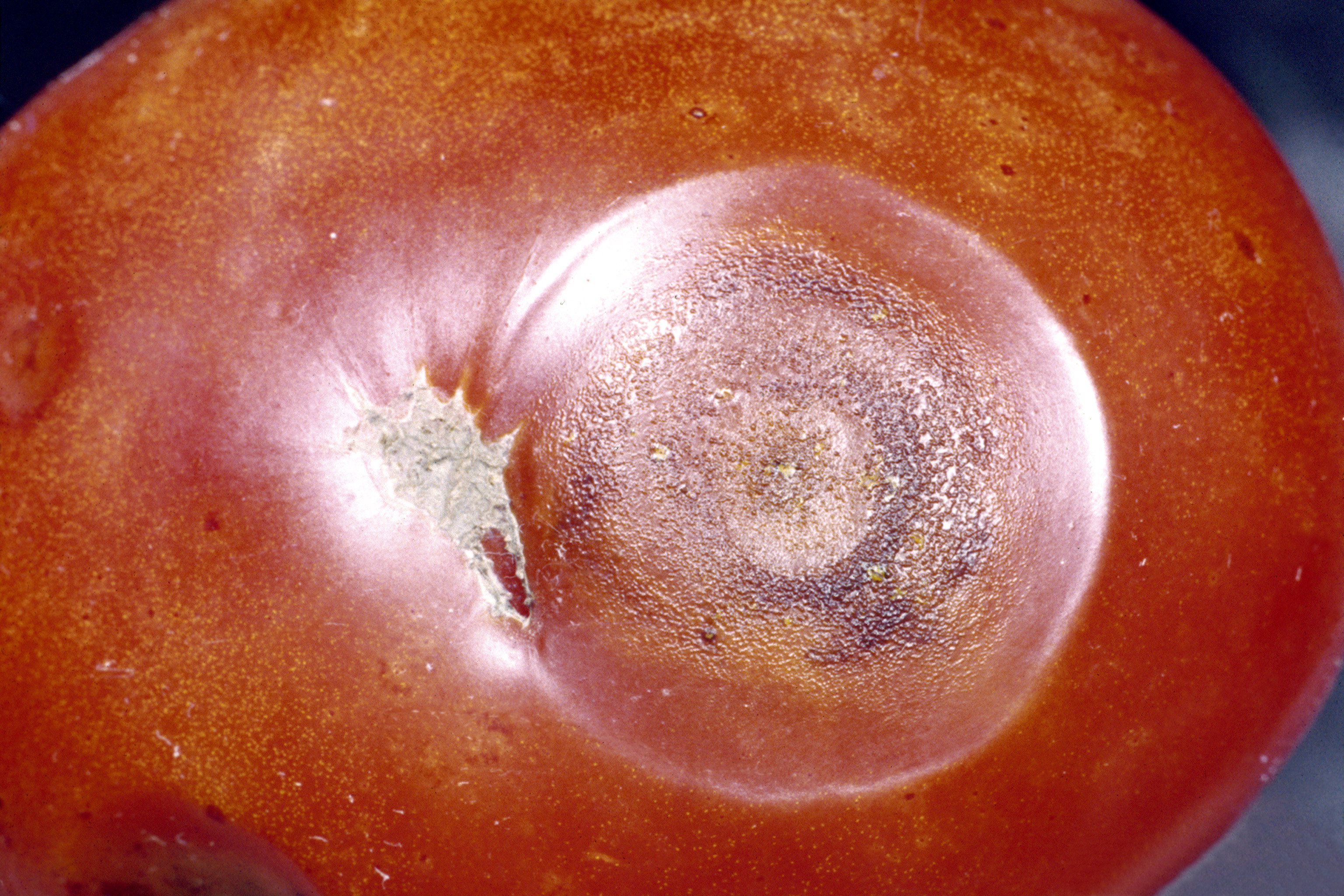 Colletotrichum coccodes causing anthracnose on tomato